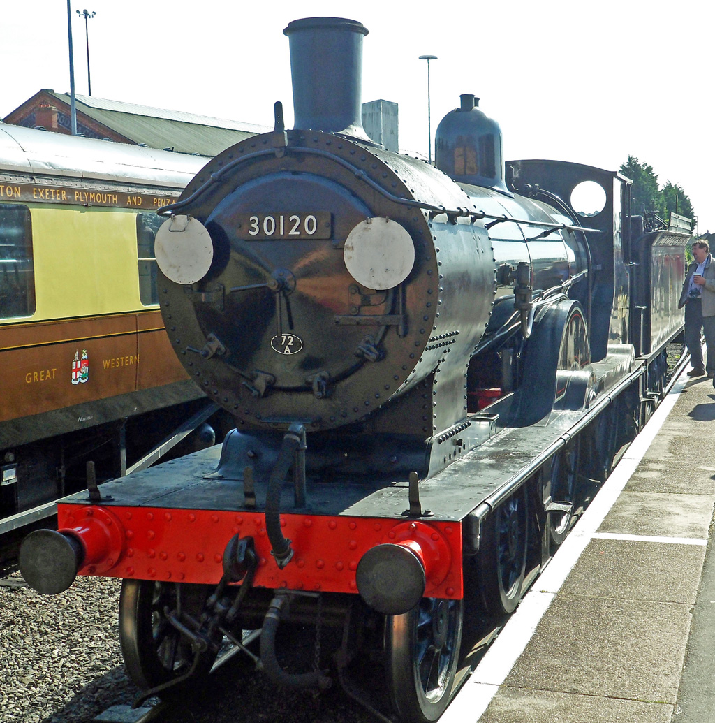 LSWR T9 30120 repainted in early BR lined black scheme in use on loan to the Severn Valley Railway in 2012